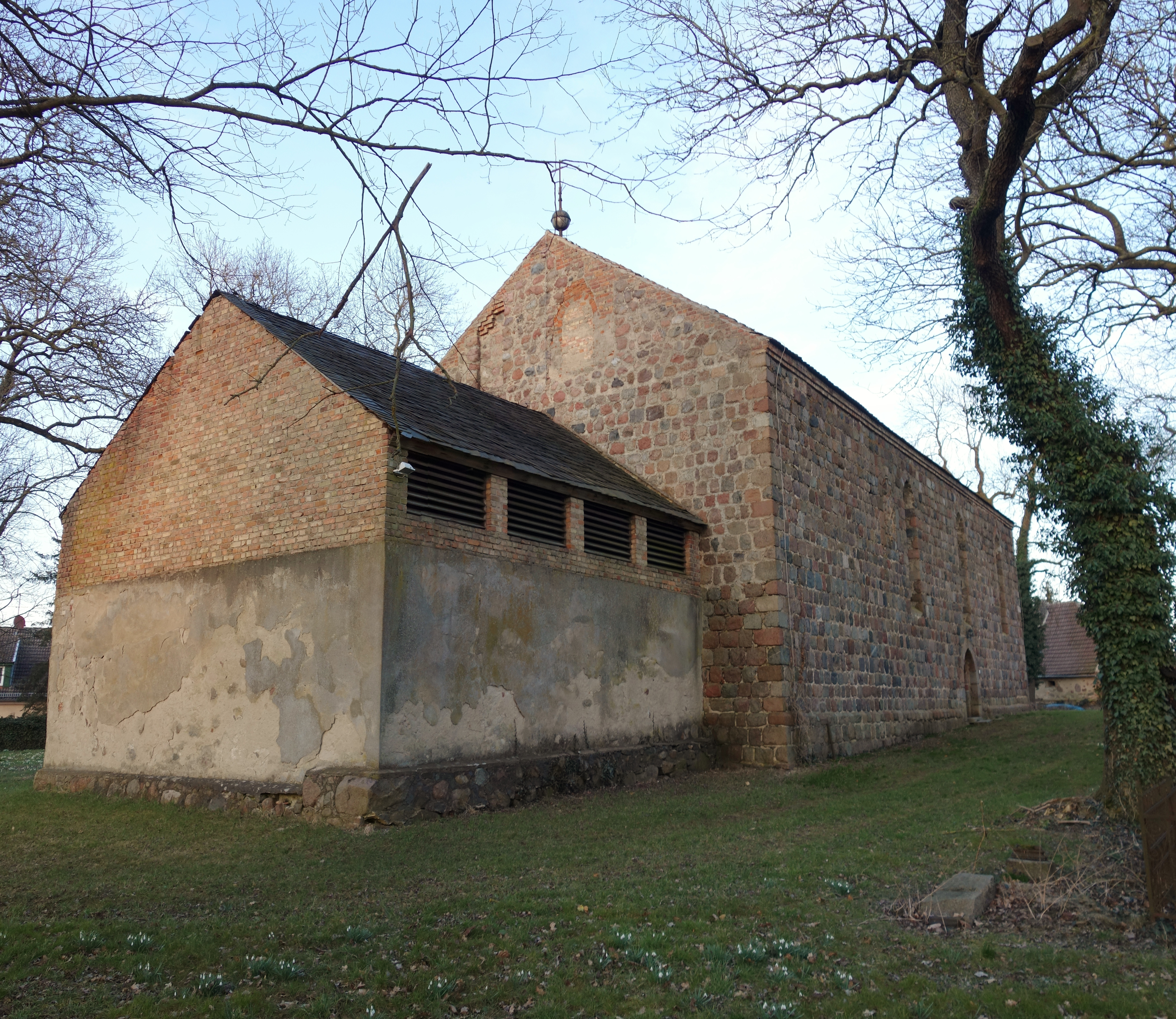 South-western view of the church in Woddow , Brüssow municipality, Uckermark district, Brandenburg state, Germany